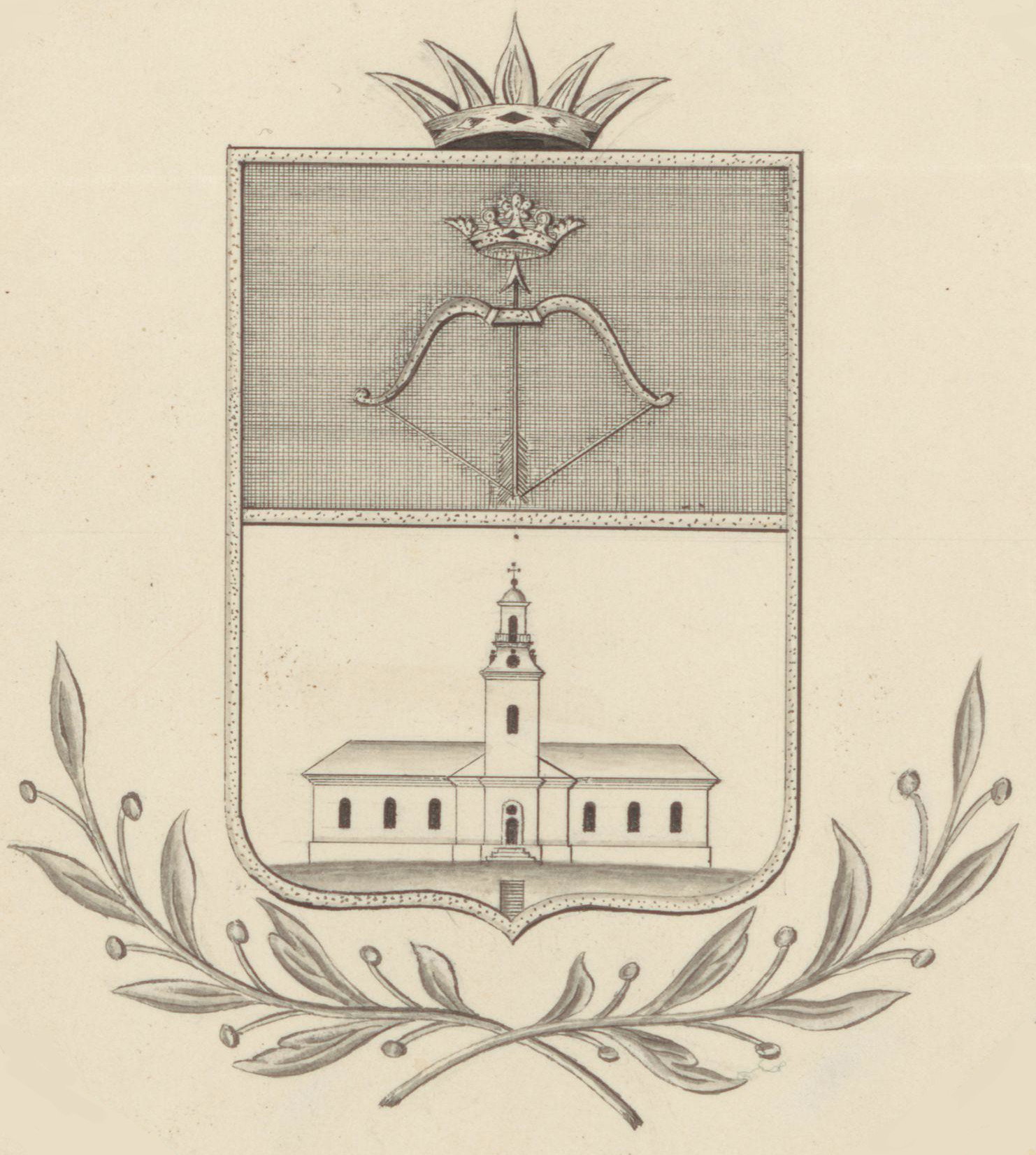 Proposed arms of Kuopio, Finland, from 1823